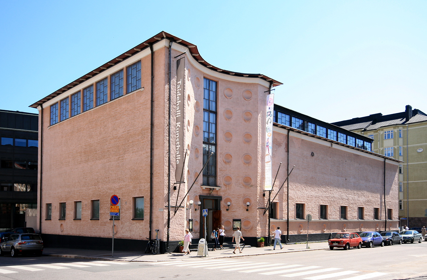 Taidehalli (Art hall), Nervanderinkatu 3, Helsinki, Finland. Architects: Hilding Ekelund and Jarl Eklund, 1927.